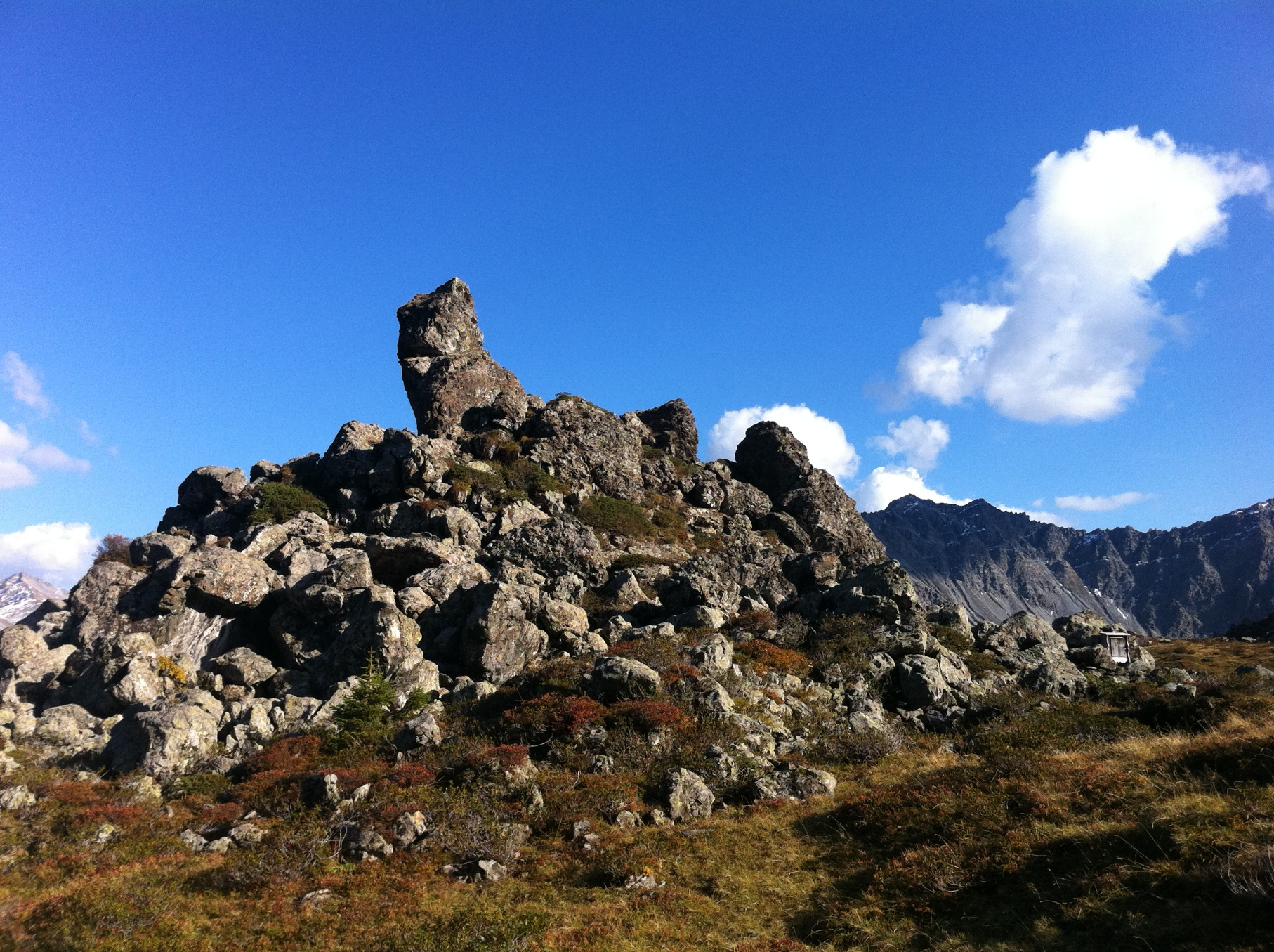 legendary execrated castle (Verwunschenes Schloss) at lake Hauensee, Arosa, Switzerland